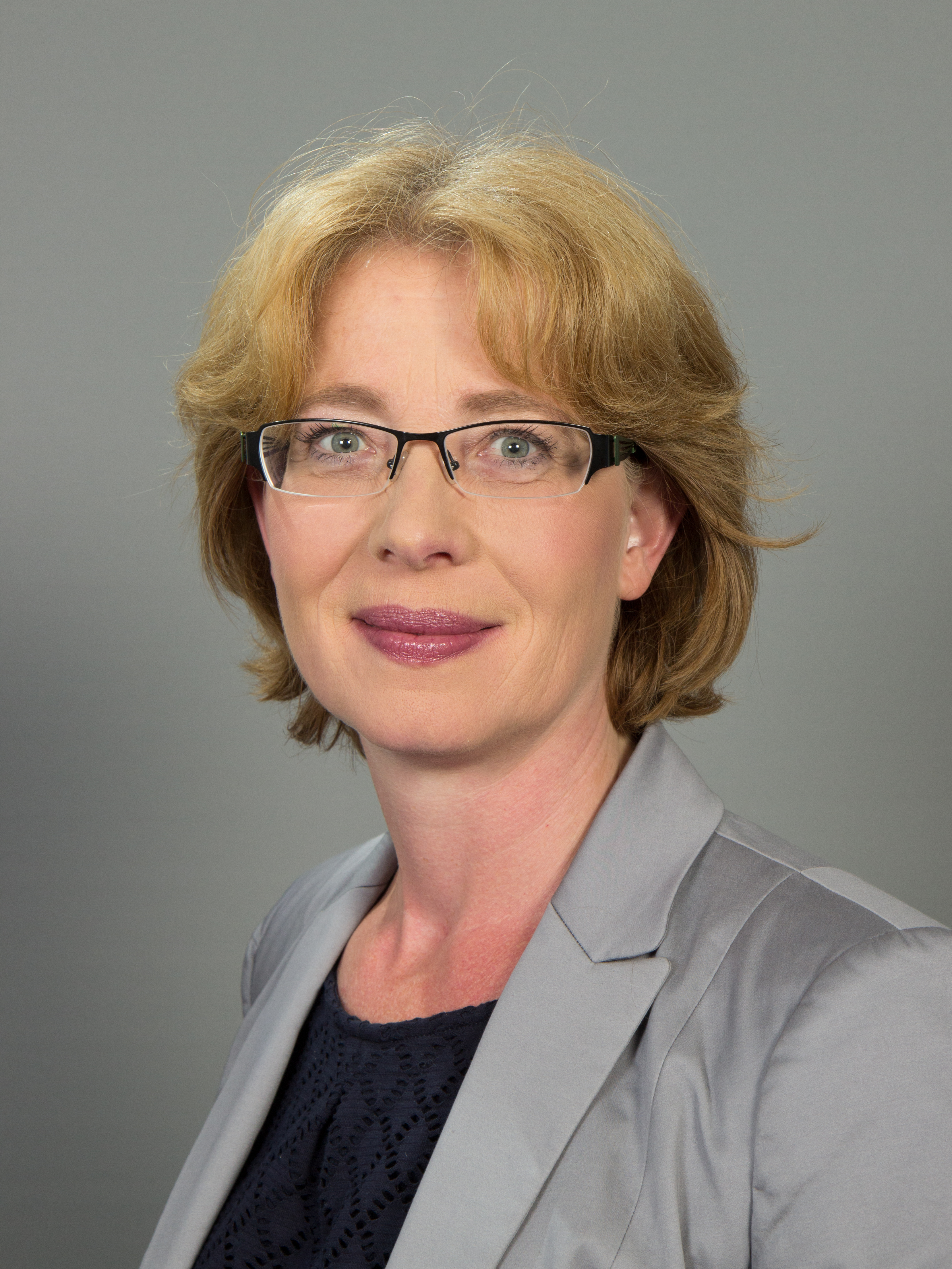 Tabea Rößner, member of the German Bundestag